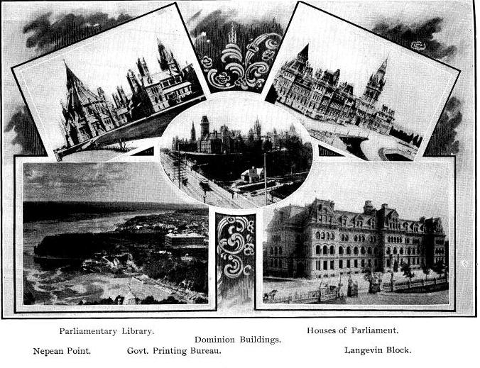 Parliamentary Library Dominion Buildings Houses of Parliament Nepean Point Government Printing Bureau Langevin Block